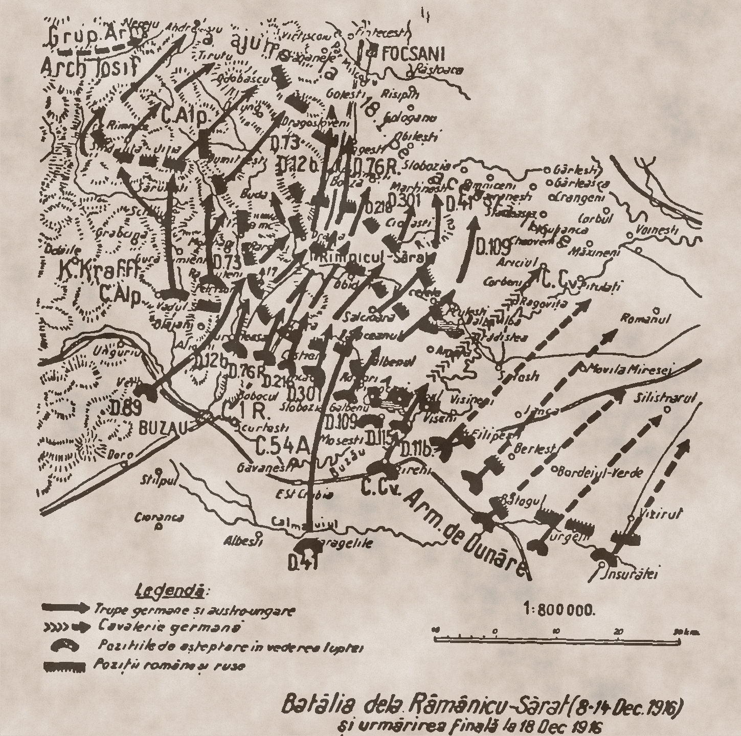 Map with the battles on the Ramnicu Sarat-Viziru alignment, on the Romanian Front, December 1916